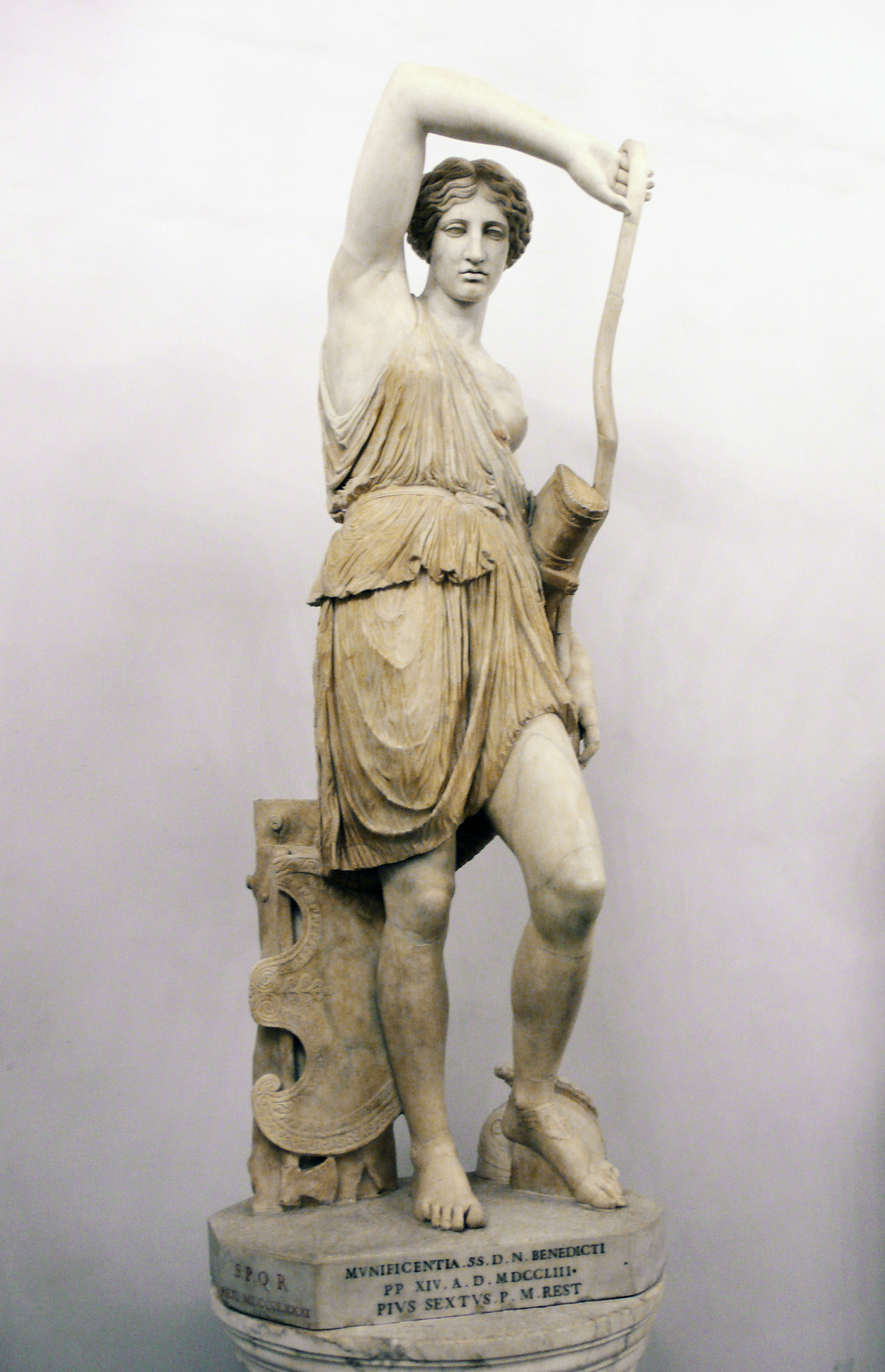 This is the statue of a female gladiator from ancient Rome. They were known as "Amazon". This is the description I found on Flickr : the wounded amazon:From an original by Phidias. Head: replica of that of the Amazon by Polykleitos Marble, cm 197. Formerly at Villa d'Este Capitoline Museum, Rome.